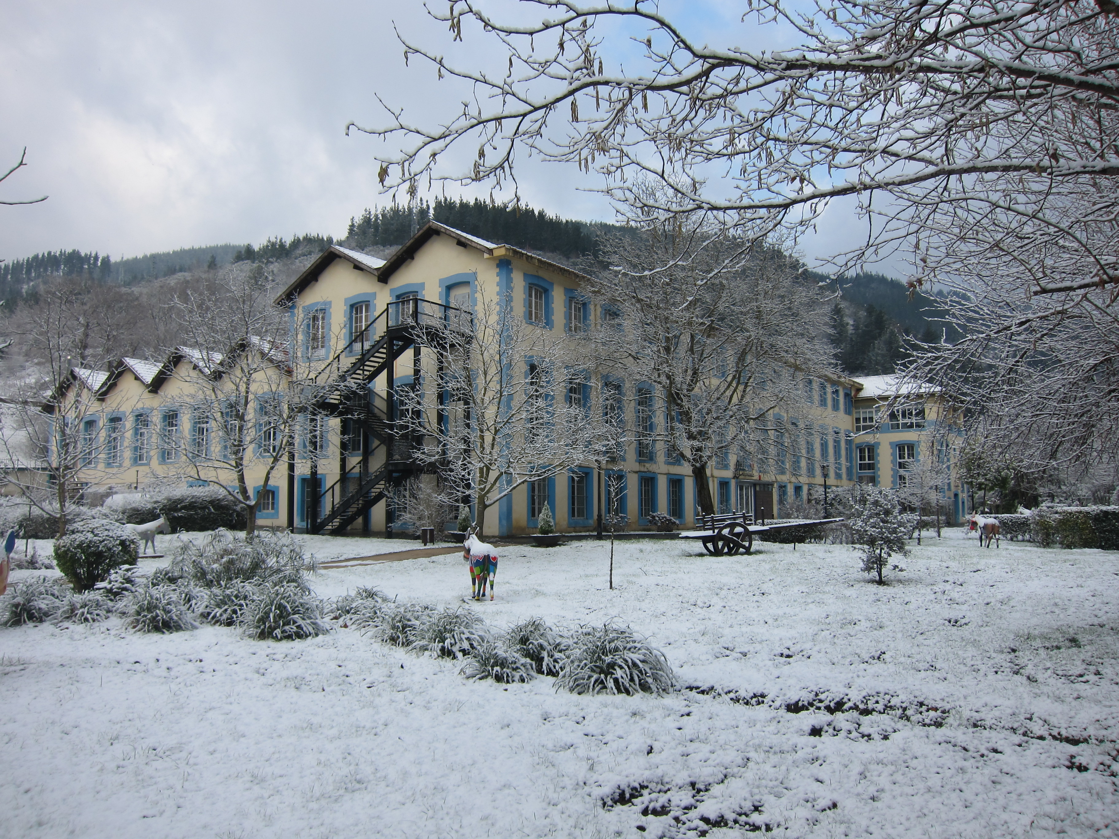 Old textile factory in Balmaseda, Bizkaia. Nowadays is a technological museum with the original machinery